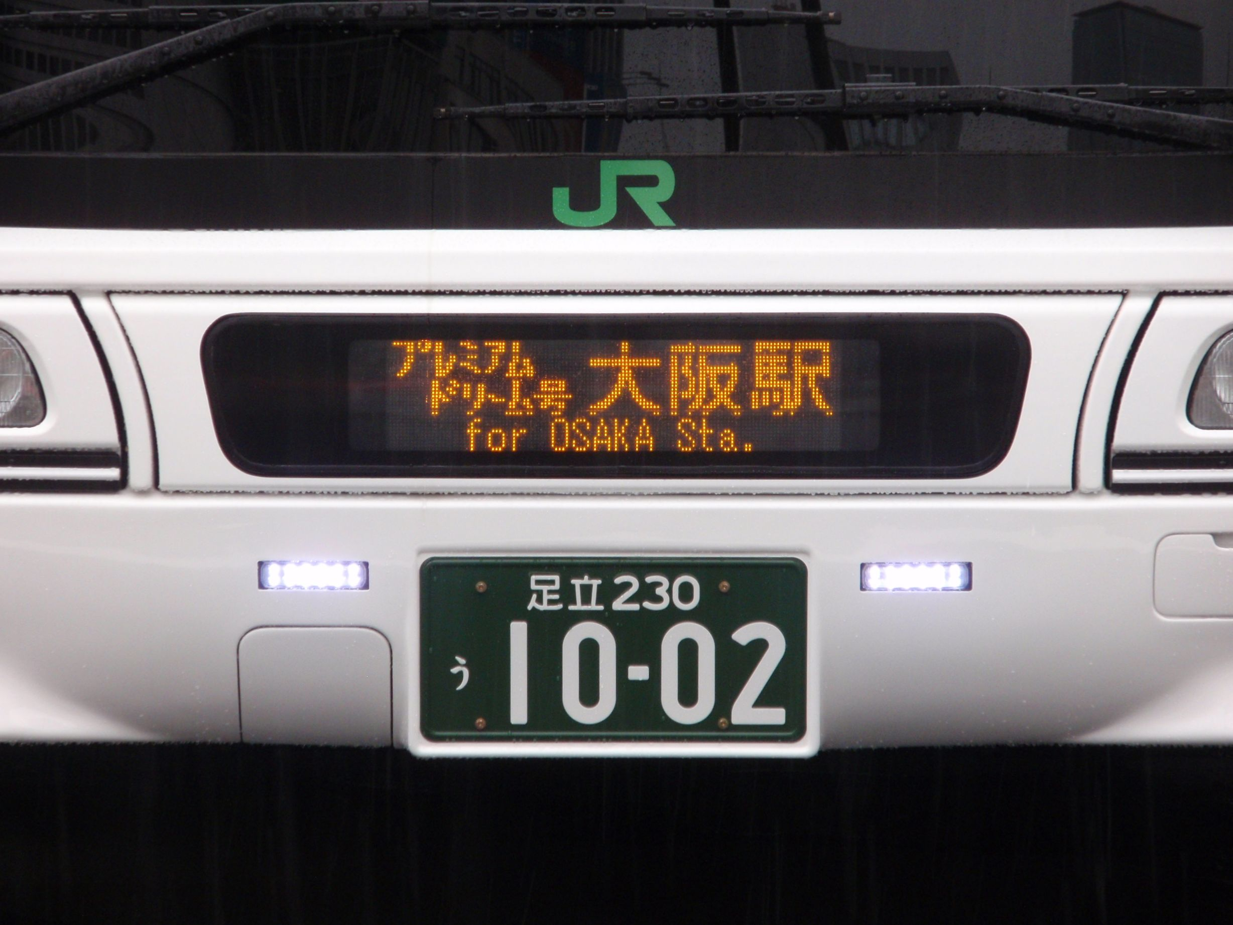 "Day Time Lamp"